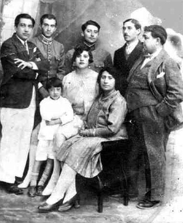 King Inayatullah Khan of Afghanistan with family members.